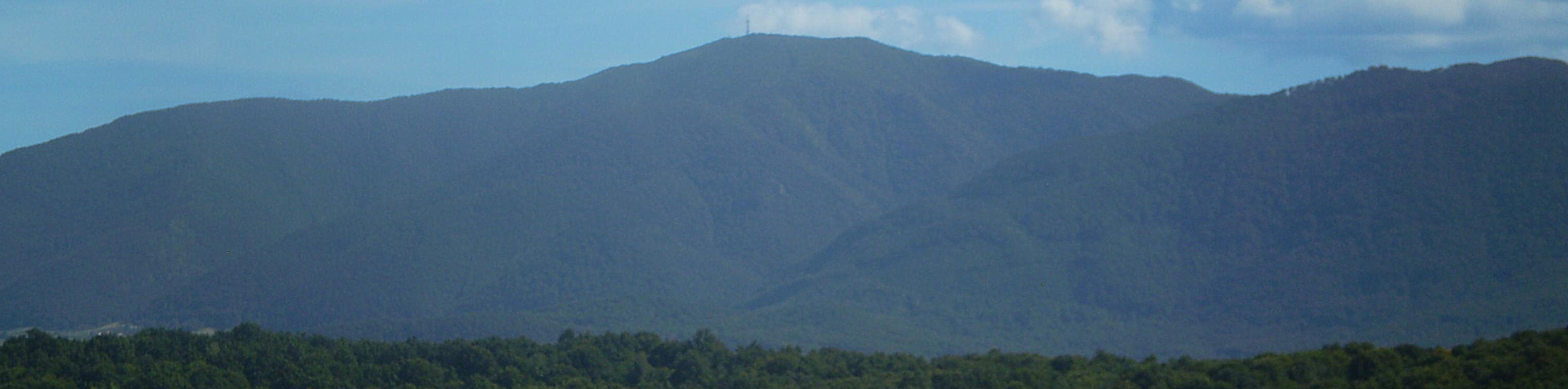 Image of Mountaint Ivanščica in Croatia.